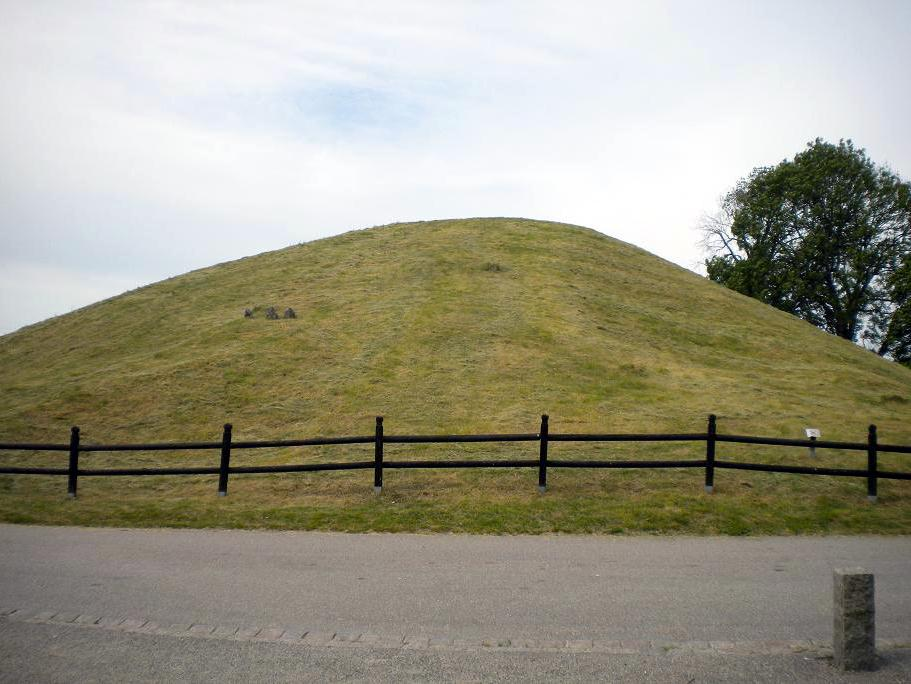 The eastern of the three large royal tumuli at Old Upsala, this one popularly called Odin’s Mound Odenshögen and through the disputed findings of archaeologist Birger Nerman identified as the grave of a 5th century King Edwin the Old (Aun den gamle), though the identities of the three buried kings also have been interchanged by some writers and completely refuted by othersPlace: Upsala, Sweden